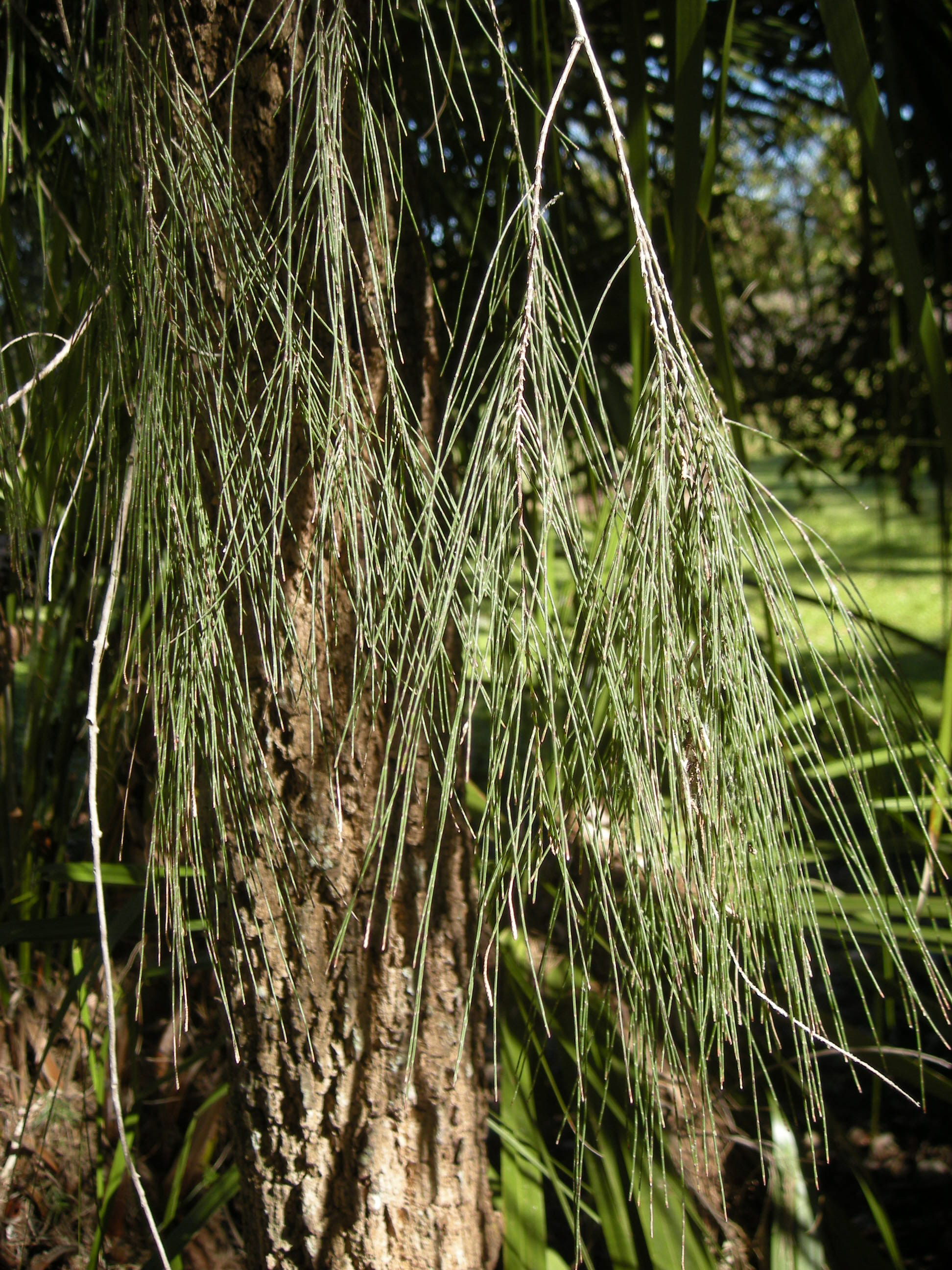 Allocasuarina torulosa (syn. Casuarina torulosa) foliage